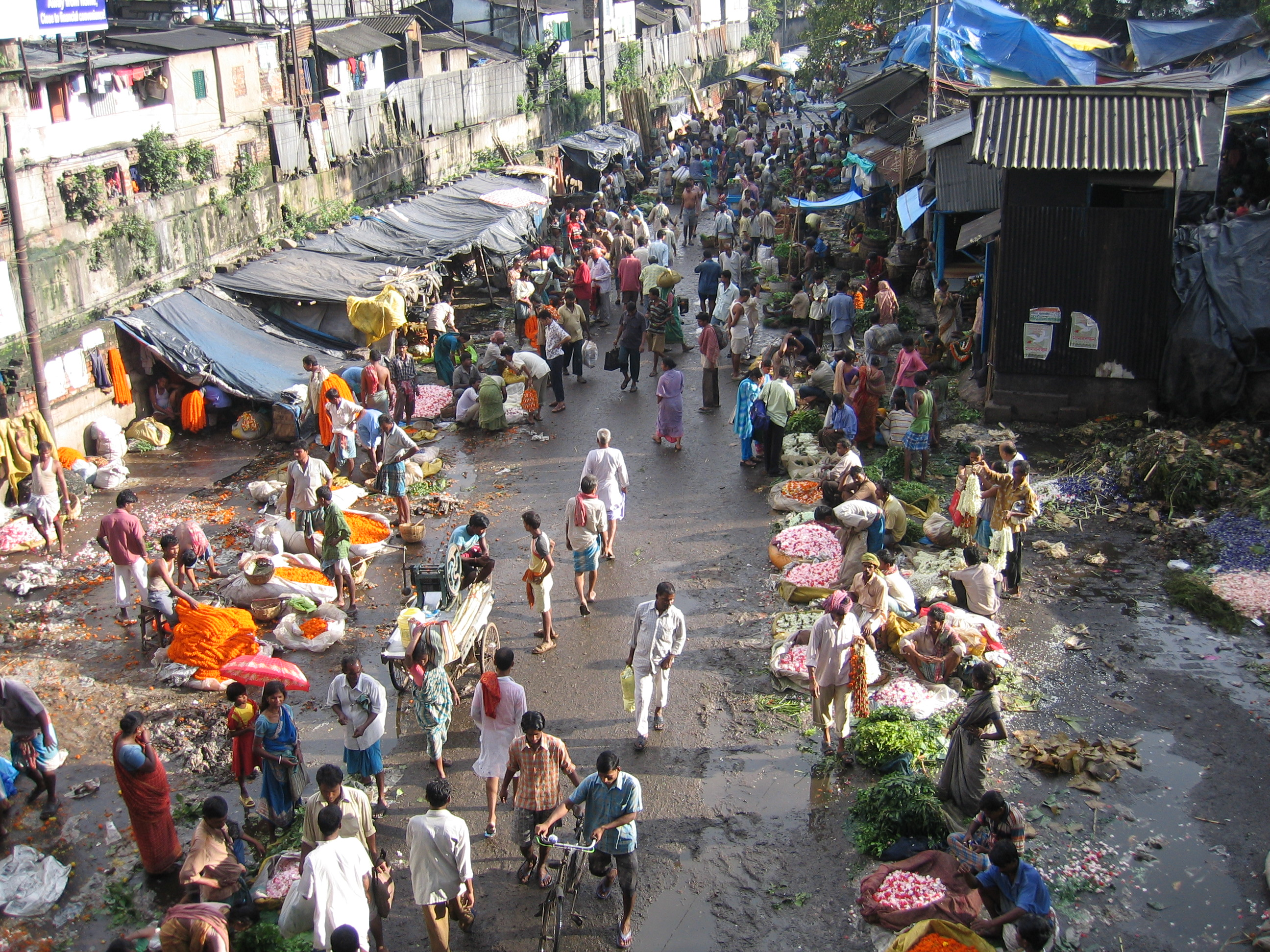 The Flower Market in Kolkata